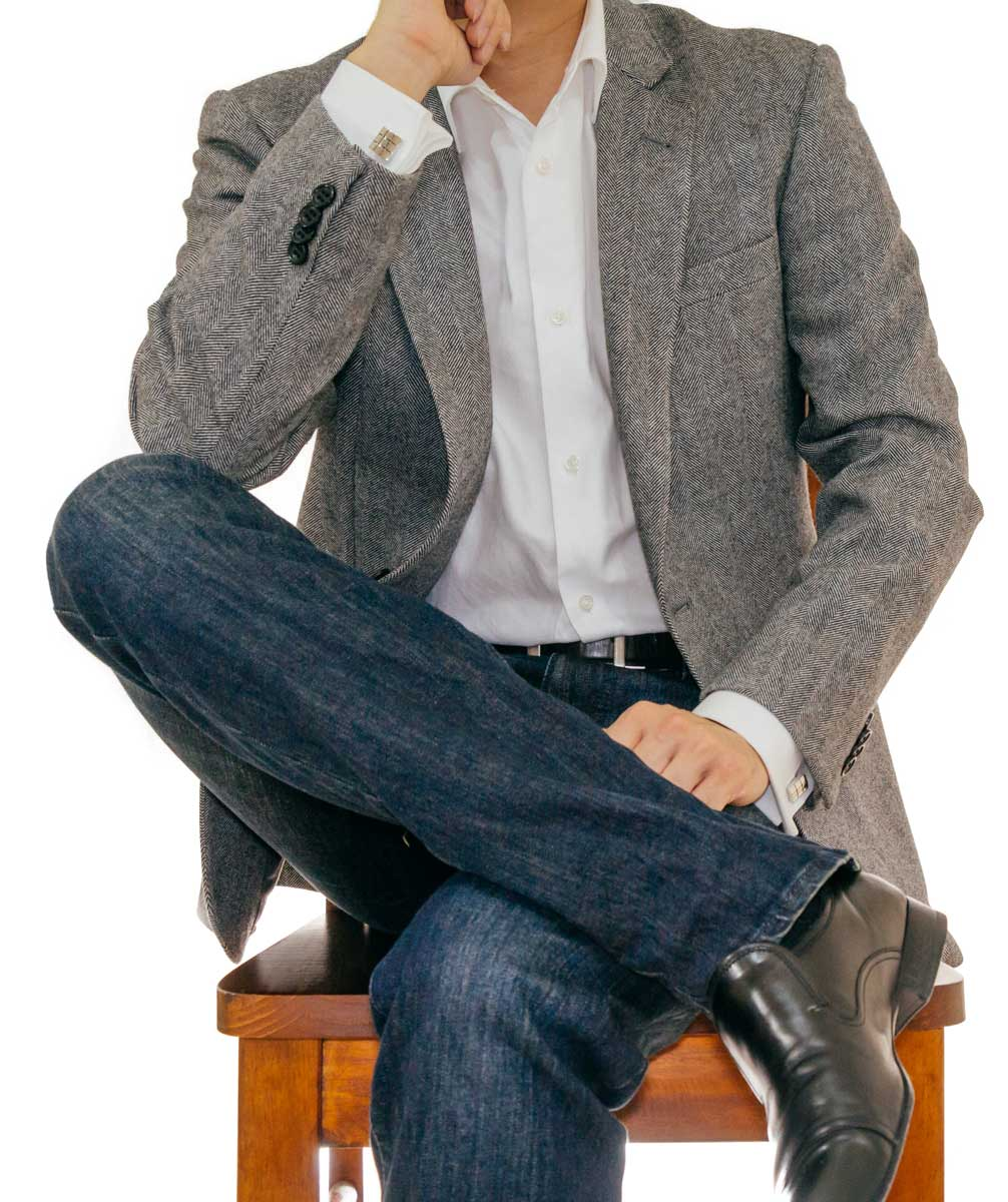 An example of smart casual attire interpreted by global fashion magazine Topman. Topman explains casual and formal clothing pieces are mixed and matched. This photograph illustrates the use of: (a) a dress shirt with French cuffs and cufflinks (formal); (b) a herringbone jacket (casual); (c) jeans (casual); and (d) dress/business shoes (formal or semi-formal).